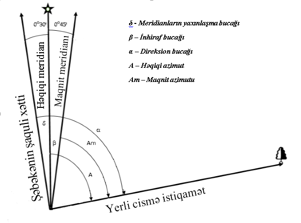 Course (navigation)